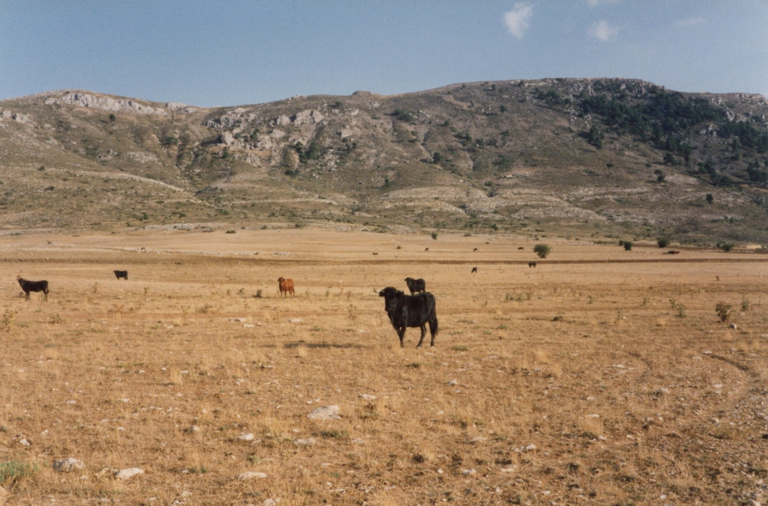 From Cazorla: In the middle of Campos de Hernan Perea